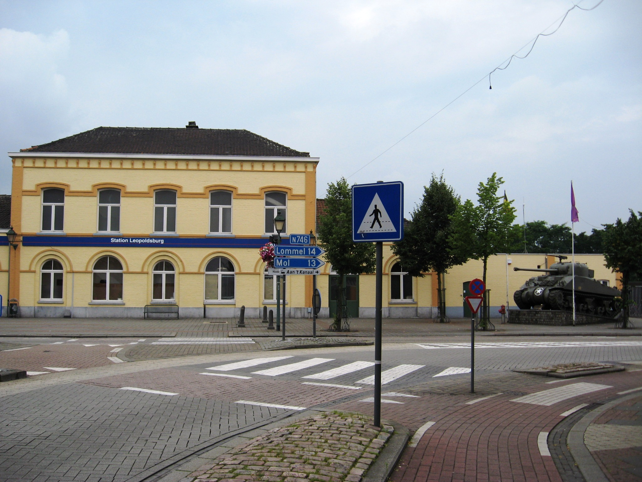 Train station of Leopoldsburg (1878), Limburg, Belgium